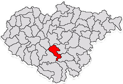 Map Salaj County Romania